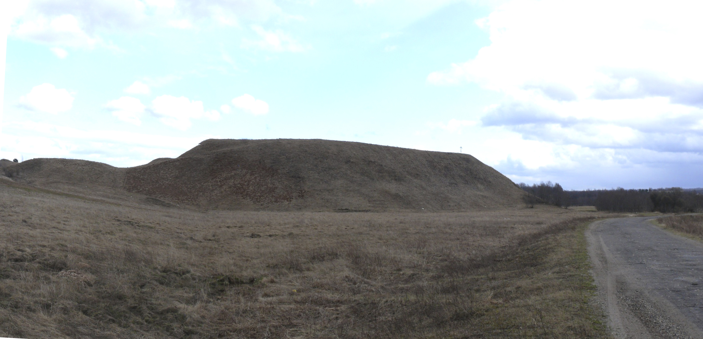 Kniazhaya mount in Demyansky district, Novgorod oblast, Russia